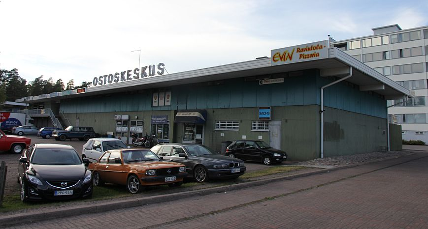 Kaivoksela shopping centre, Vantaa, Finland. Please remember mention the author if you use the photo.